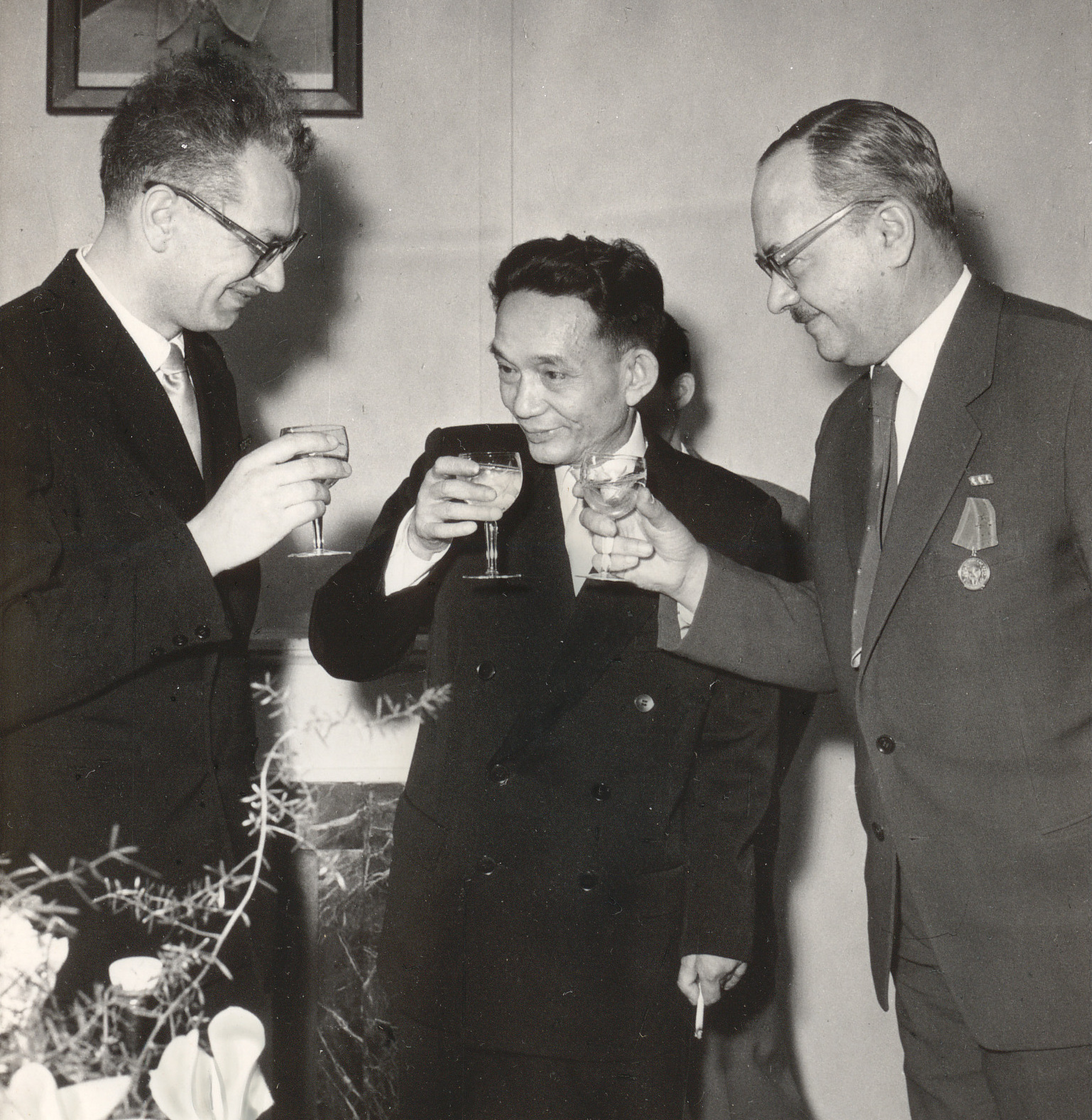 Stefan Zbigniew Różycki being decorated with the Vietnam order of Labour, First Class, 1960